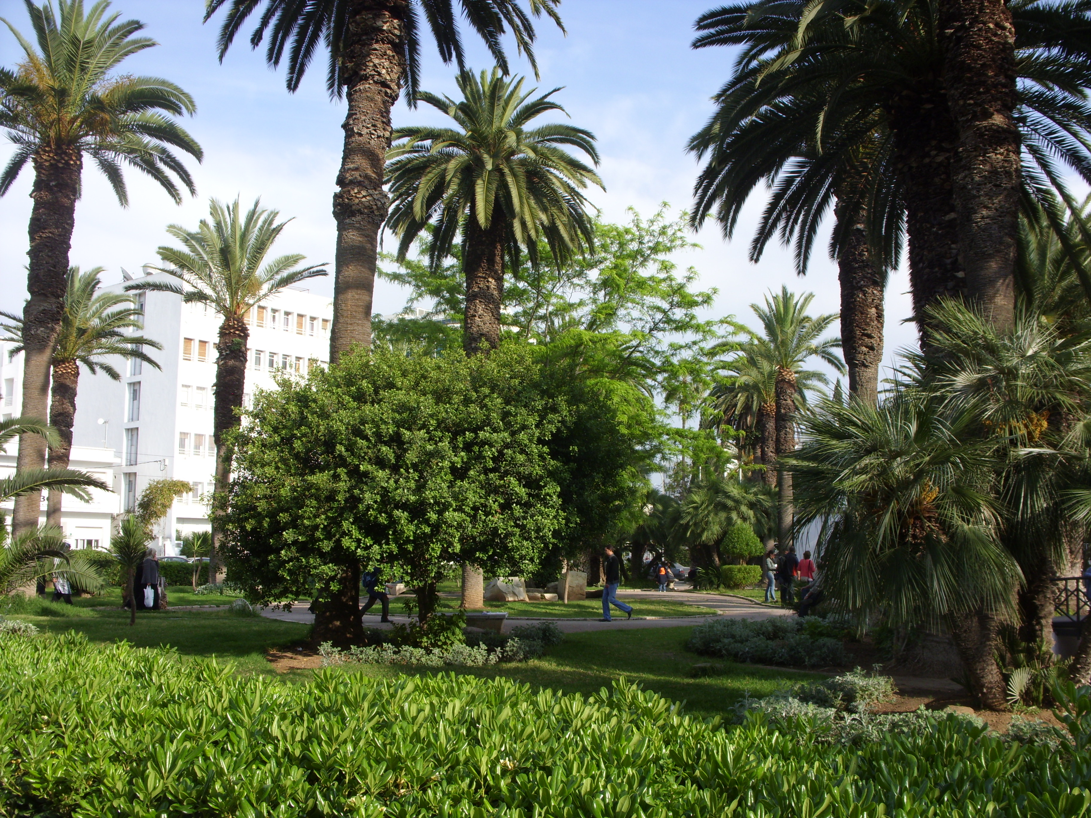 Place d'Afrique, Tunis